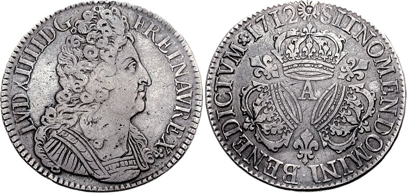 France, Royal. Louis XIV, le Roi Soleil (the Sun King). 1643–1715. AR Écu aux trois couronnes (30.00 g, 6h). Paris mint. Dated 1712. Cuirassed bust right Three crowns arranged in a triangle, three lis between, mintmark in center. Duplessy 1568; Ciani 1937. VF, toned.